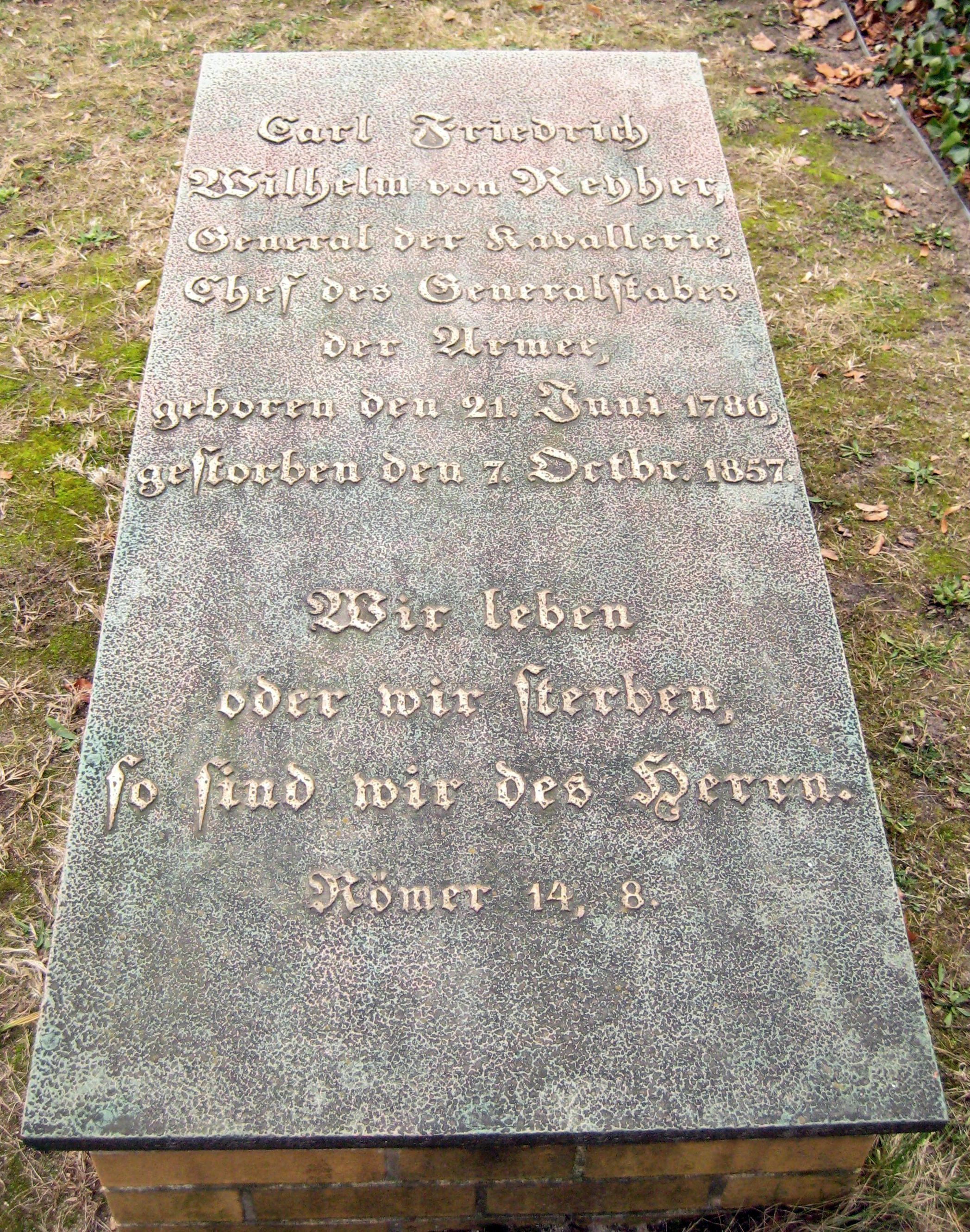 grave of Carl Friedrich Wilhelm von Reyher (1857) on Invalidenfriedhof cemetery in Berlin